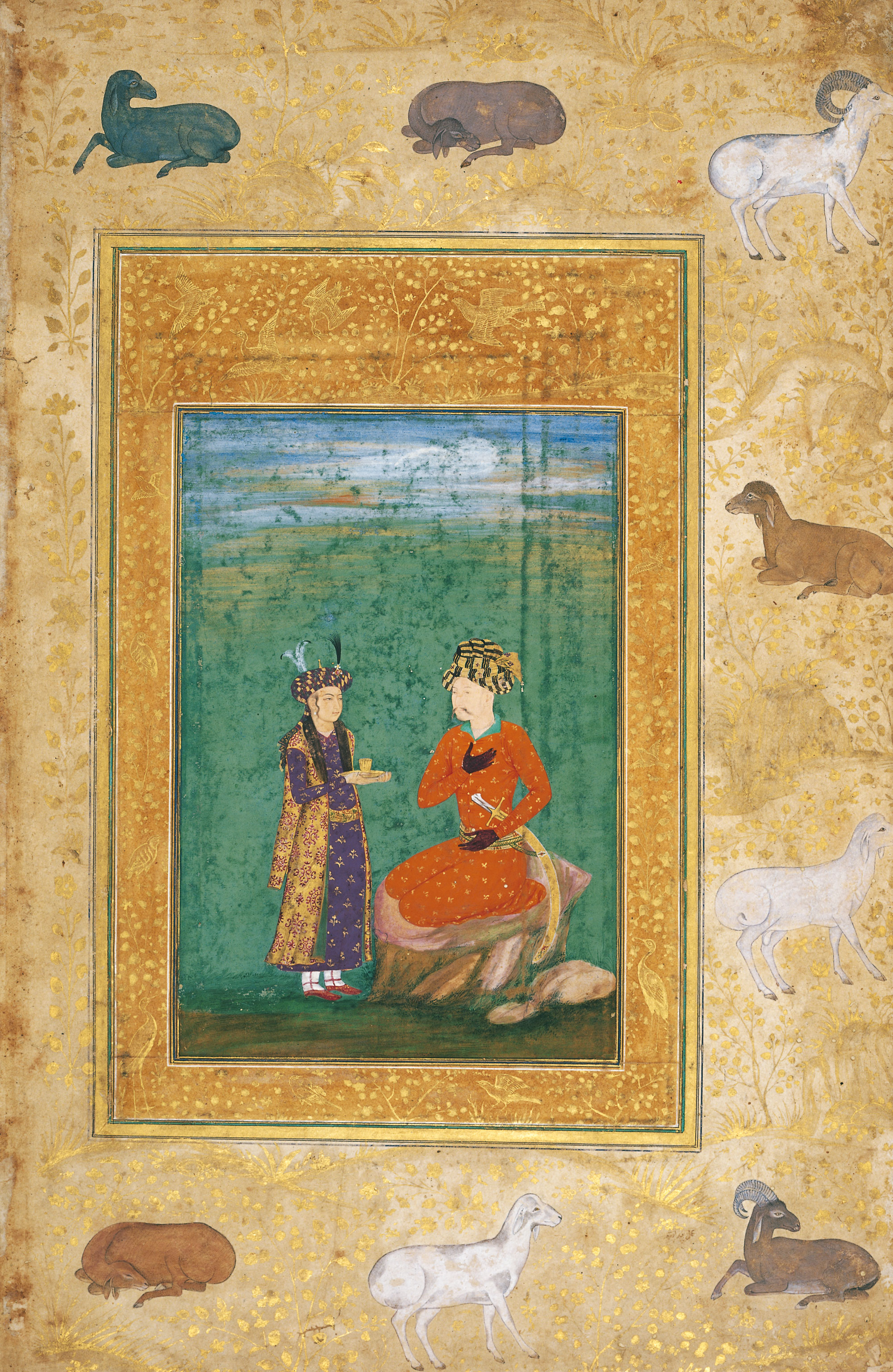 Abu'l Hasan. Shah 'Abbas I Of Iran Attended By a Page. Aga Khan Museum, Geneva